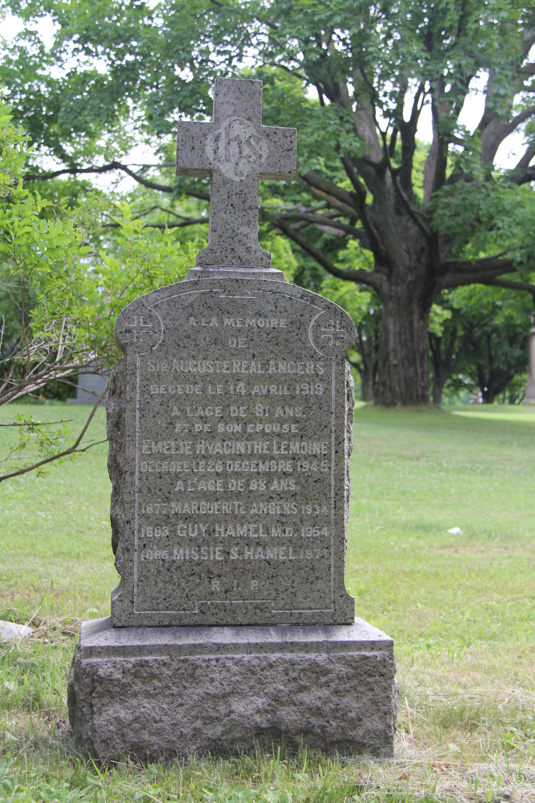 Auguste-Réal Angers’s tombstone, Notre-Dame-des-Neiges Cemetery (C42), Montreal.